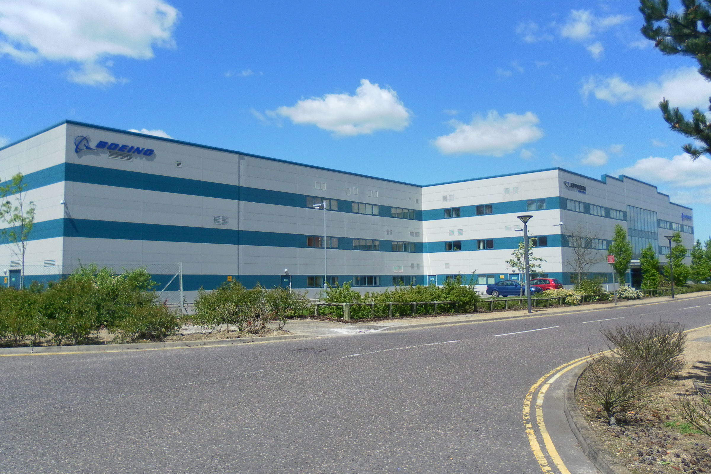 Boeing Jeppesen Building, Manor Royal, Crawley, West Sussex, England.